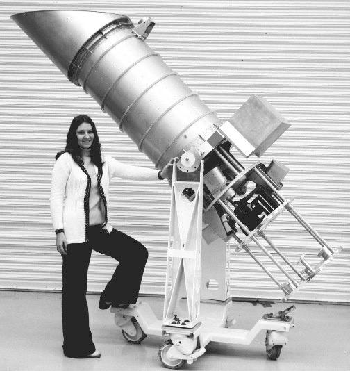 This image shows the core of the science hardware of the International Ultraviolet Explorer. The telescope tube and sunshade extend above the pivot point of the support stand, the cameras are just below, and some of the mirrors and diffraction gratings are at the bottom. The box extending from the midpoint of the assembly covers the location of the spacecraft gyros. The small structure near the top of the tube, just below the angled sunshade, is likely one of the S-band downlink antennae. This was subsequently removed and installed on another part of the spacecraft when it was realized that this location would interfere with the shroud covering IUE during launch.